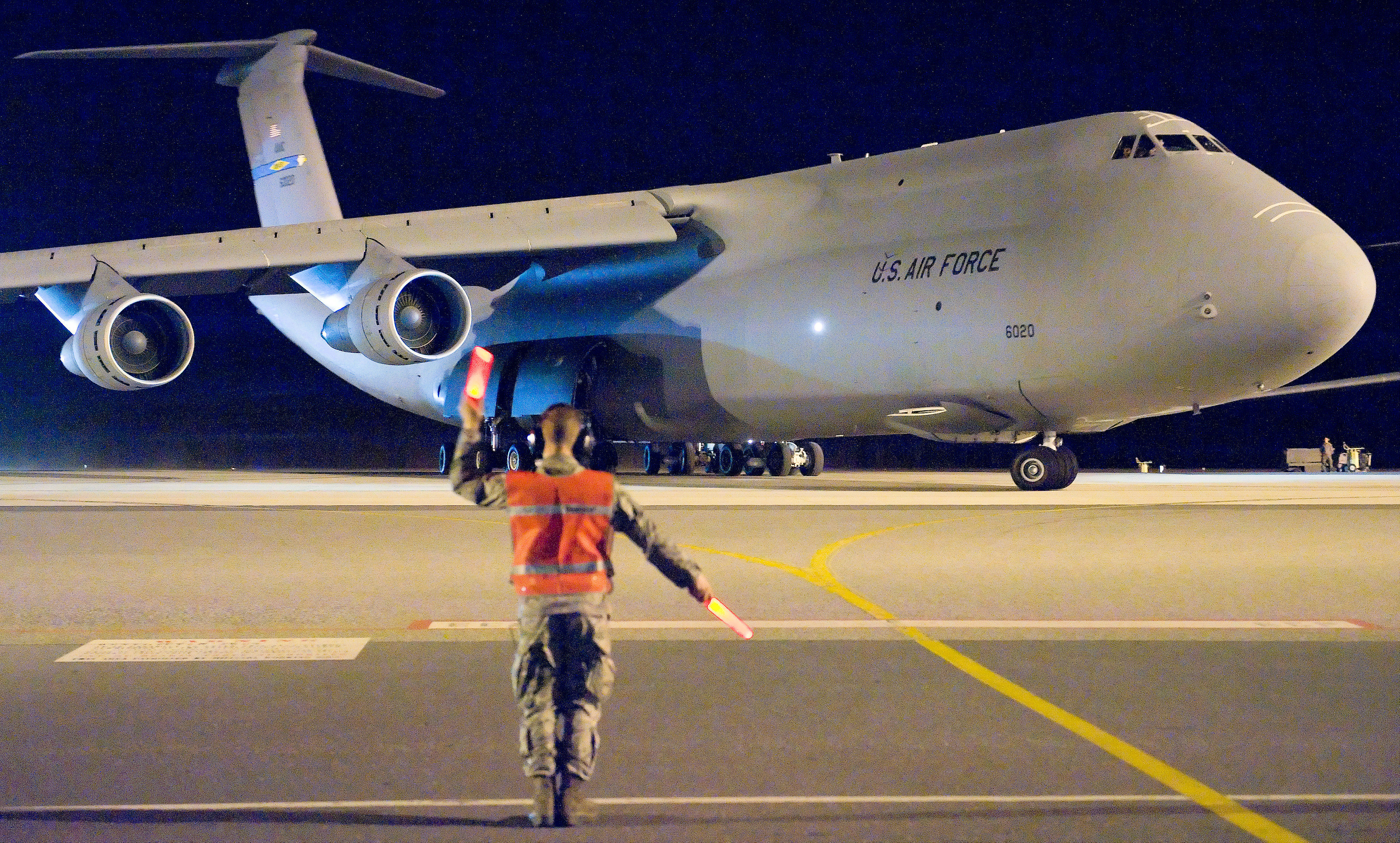 Airman 1st Class Aren Stinebuck, a crew chief with the 436th Aircraft Maintenance Squadron, marshals C-5B 86-0020 out of it's parking spot for a four-day mission March 8, 2012, at Dover Air Force Base, Del. This was the last active-duty C-5B mission flown at Dover AFB. The 9th Airlift Squadron will now exclusively use the C-5M Super Galaxy for local training, state-side and overseas missions. (U.S. Air Force photo by Roland Balik)